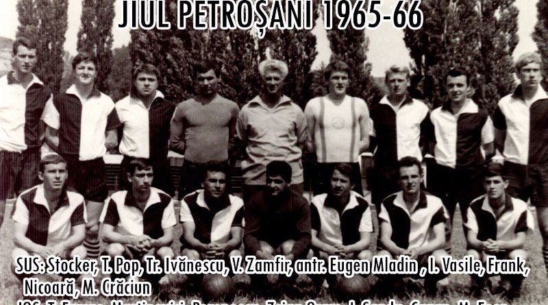 Jiul Petroșani squad 1965-1966 Divizia B season.